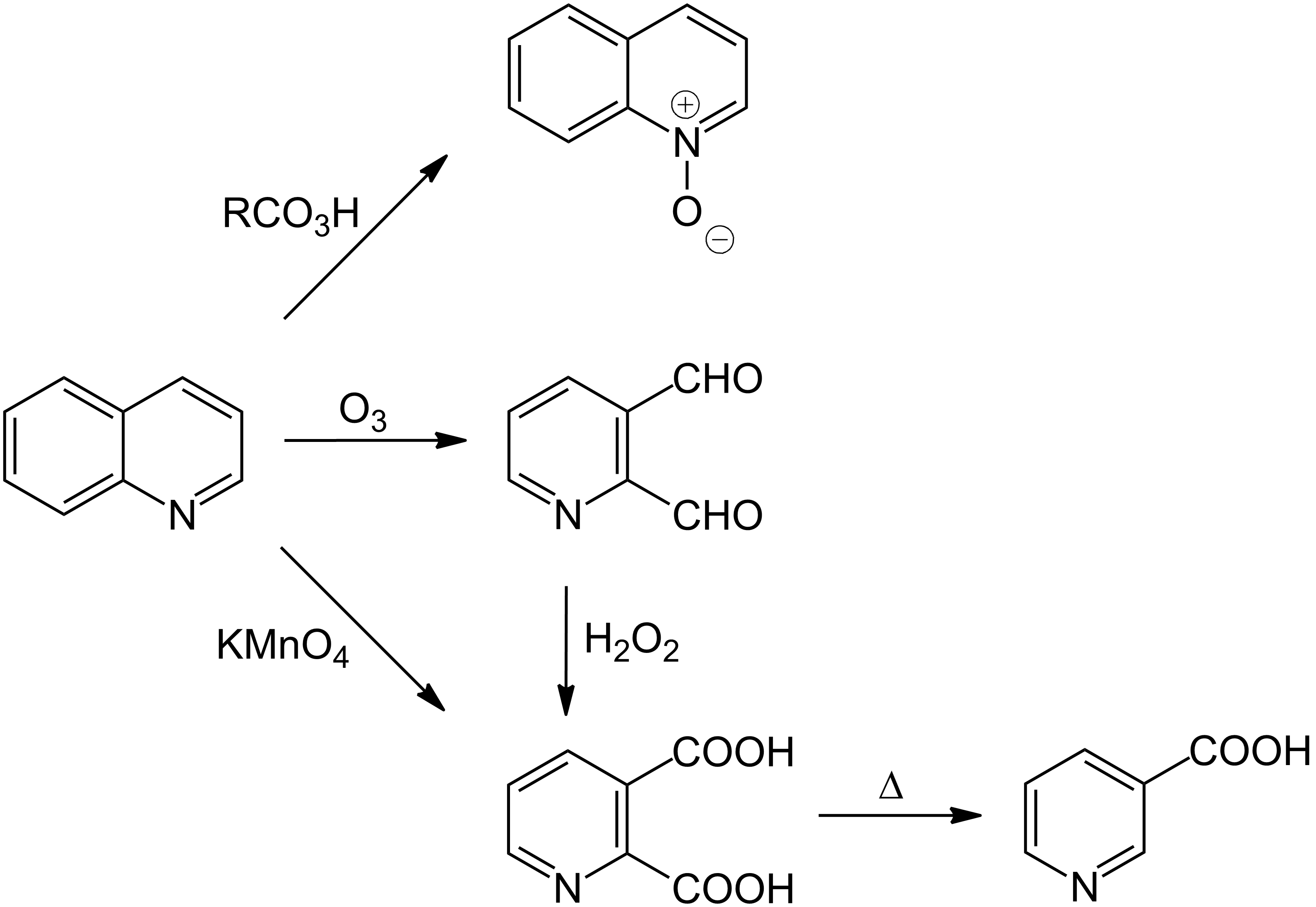 Oxidation von Chinolin